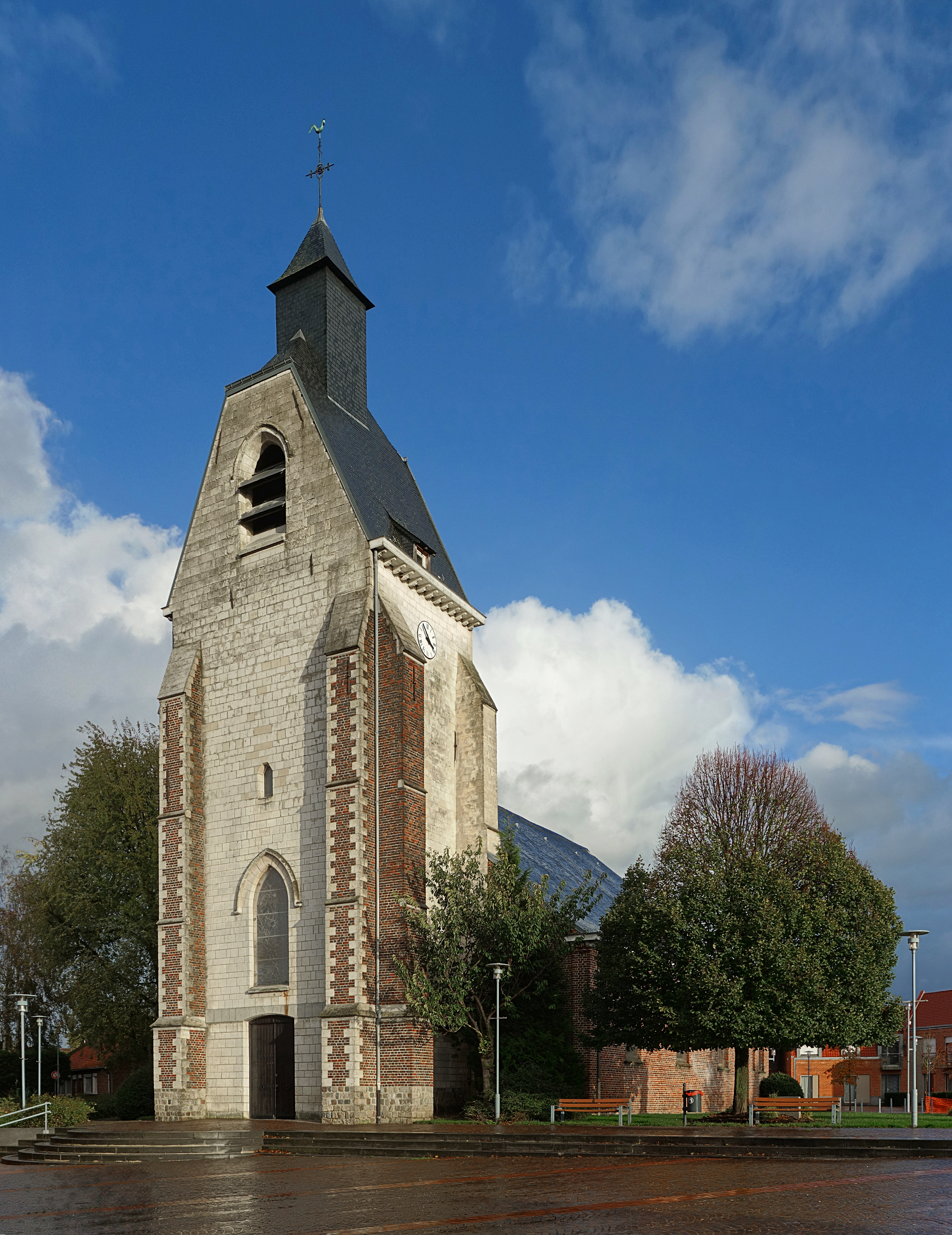 Saint Eloi church in Lezennes, France.